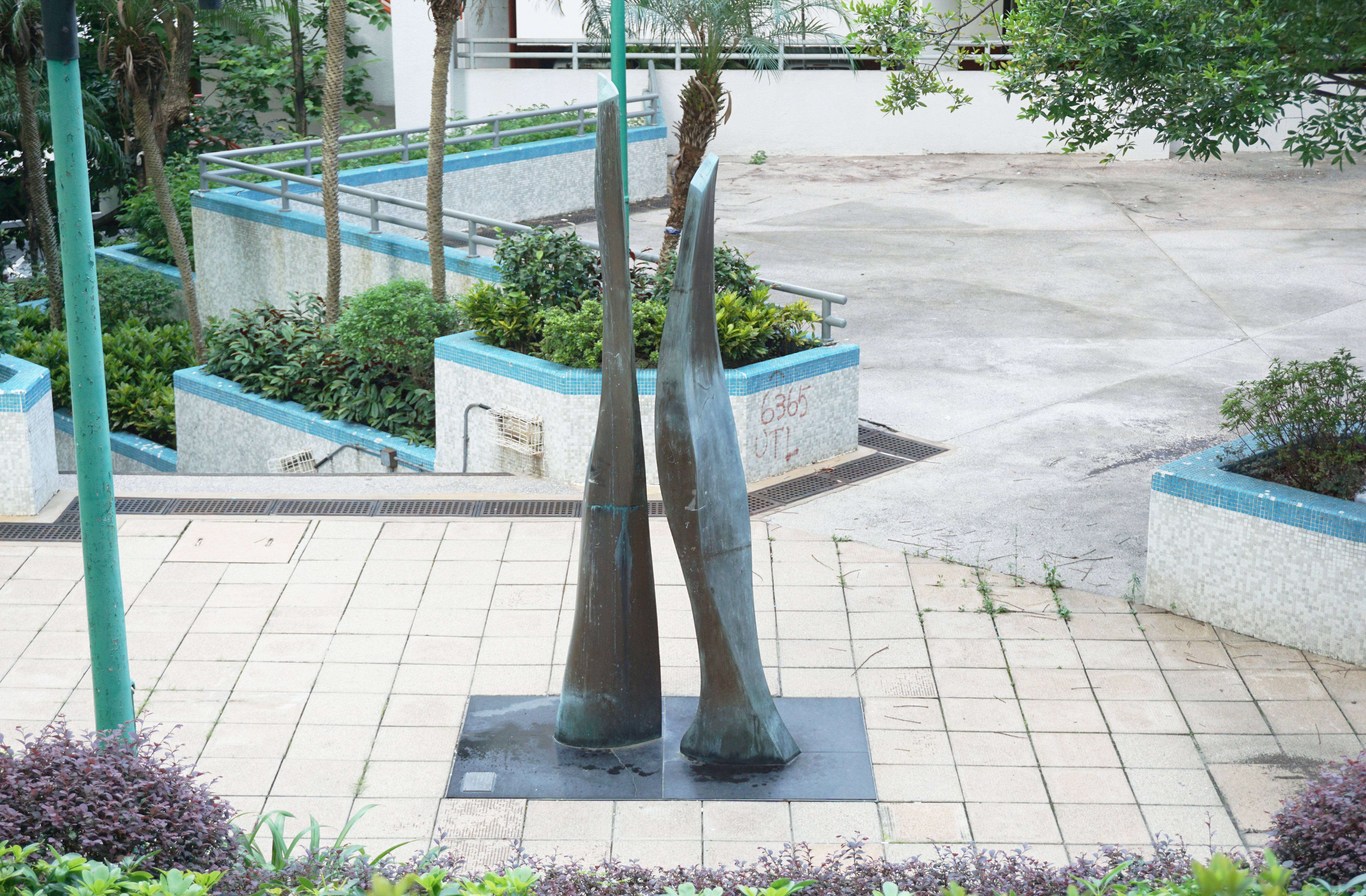 Tsui Lam Estate in Tseung Kwan O, Hong Kong.